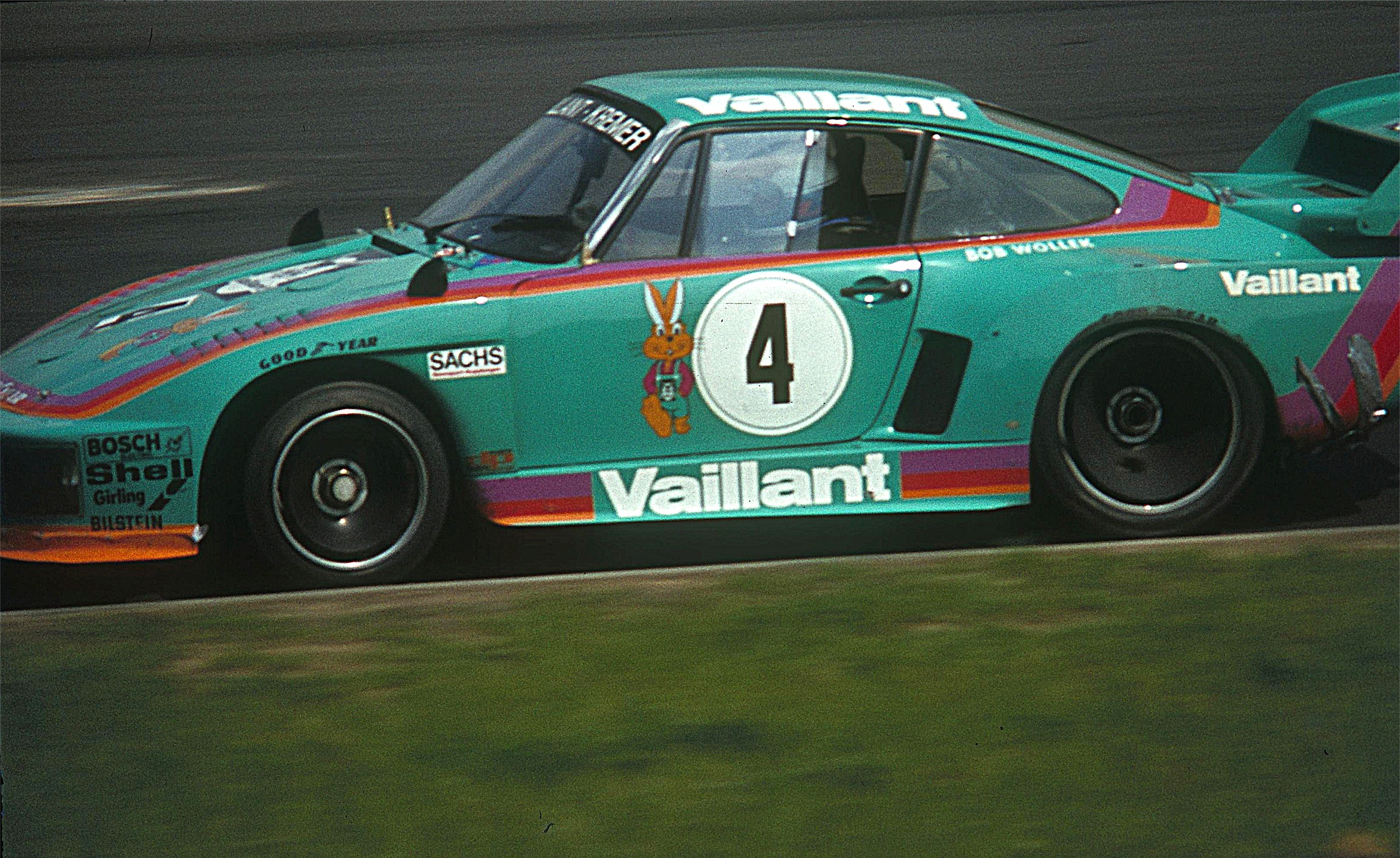 Porsche 935 driven by Bob Wollek through the Nordkurve at the 1000 km race on the Nürburgring.